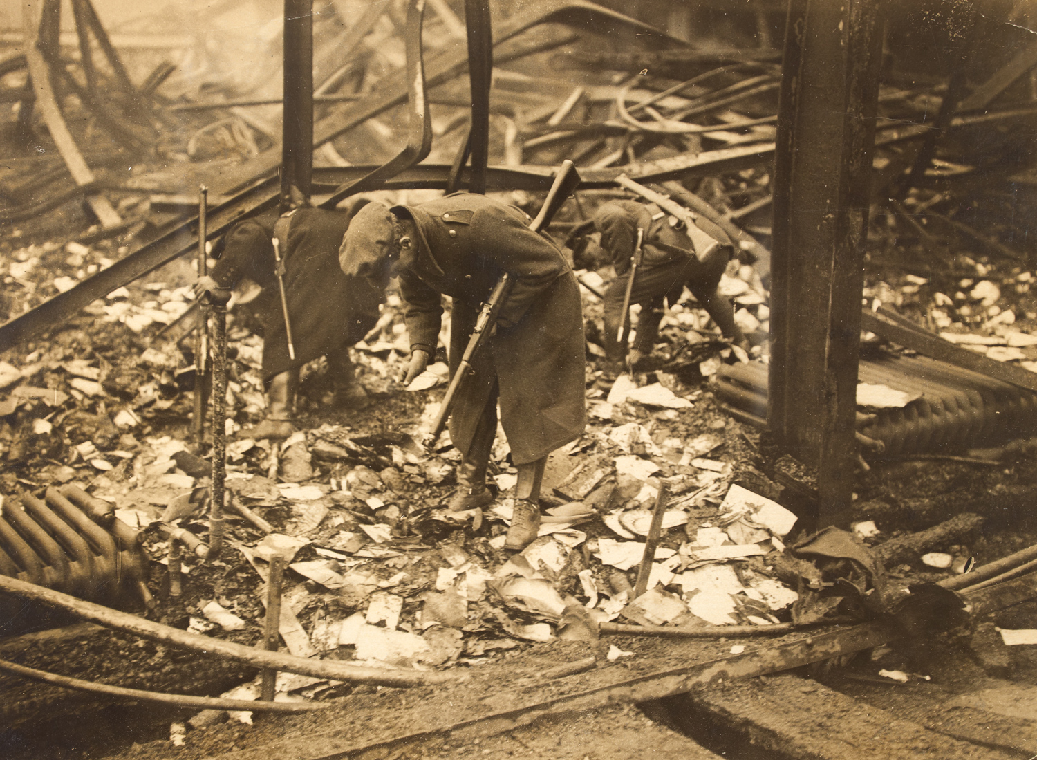 National Army soldiers searching through the remains of a fire at the Rotunda Rink, Parnell Square, which was the sorting office of the General Post Office, Dublin. The Irish Times of Monday, 6 November 1922 contained this report of the event: "The Rotunda Rink Post Office, Dublin, was destroyed by fire yesterday morning. At about 6.40 o'clock armed men compelled a watchman to admit them at the western gate. The officials on duty were ordered into a small room, and later were escorted into Lower Dominick street, when they were instructed to walk towards the Broadstone Station. In the meanwhile, other men entered the Rink with tins of petrol, with which they saturated the floors, and, when their preparations were complete, set the place on fire. Within an hour, despite the efforts of the fire brigade to extinguish the flames, the Rink was a mass of smouldering ashes and twisted ironwork. The destruction of the Rink has resulted in the loss of a great quantity of correspondence. There will be only two deliveries in the city today, but to-morrow there will be three. The postal authorities, apparently, intend to use Banba Hall as a temporary sorting office." Date: Sunday, 5 November 1922 NLI Ref.: HOG104